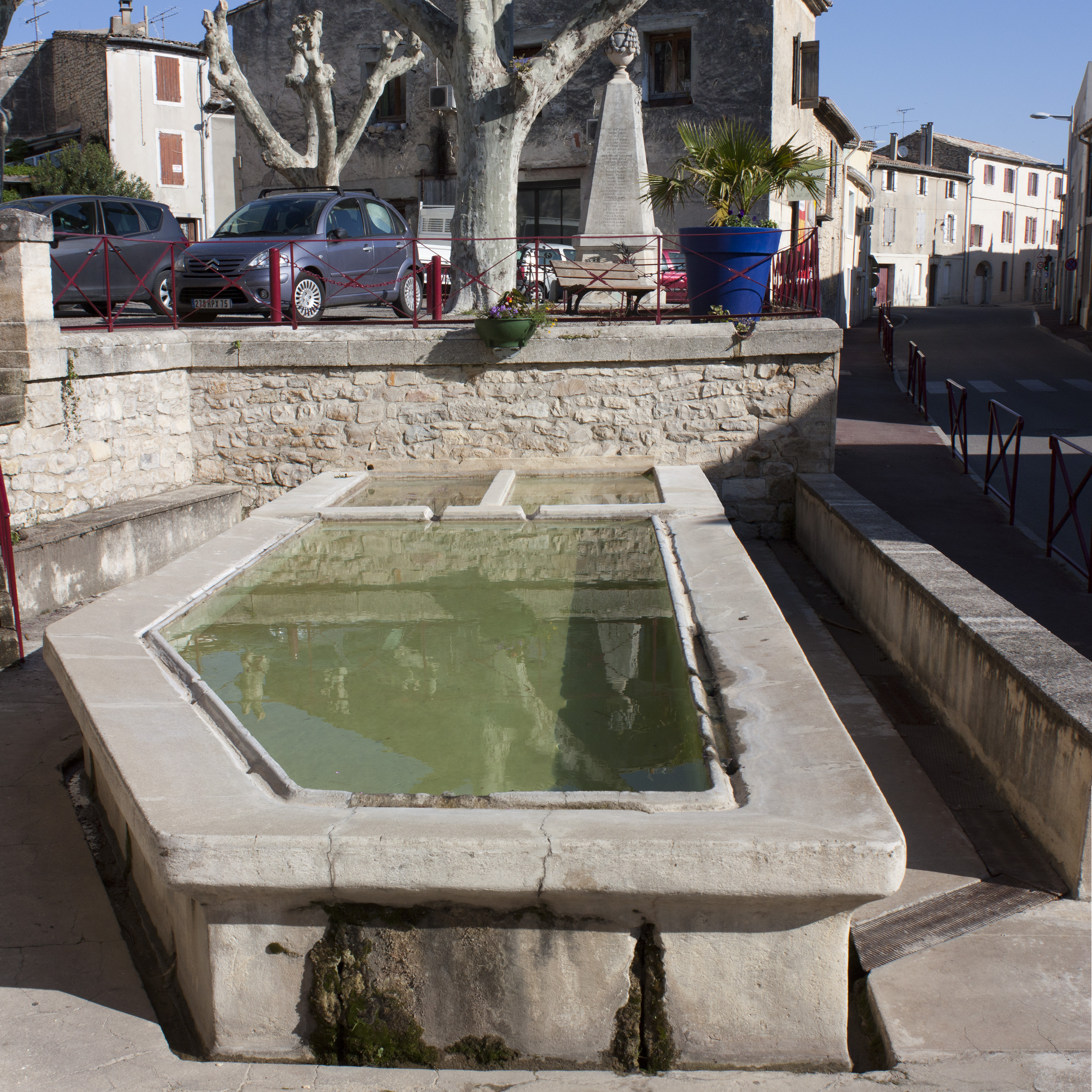 The washhouse of the Herboux, railway station street.